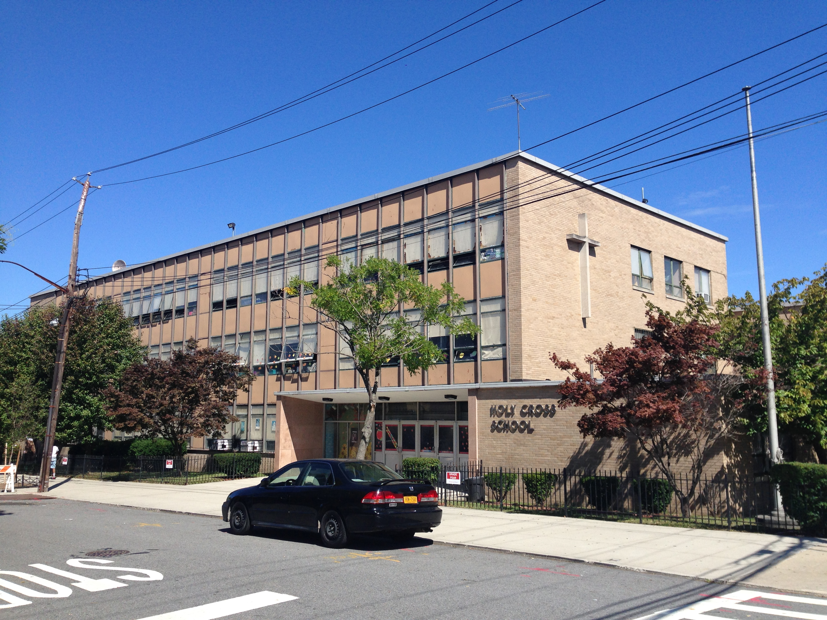 Roman Catholic Holy Cross Elementary School in Soundview, Bronx